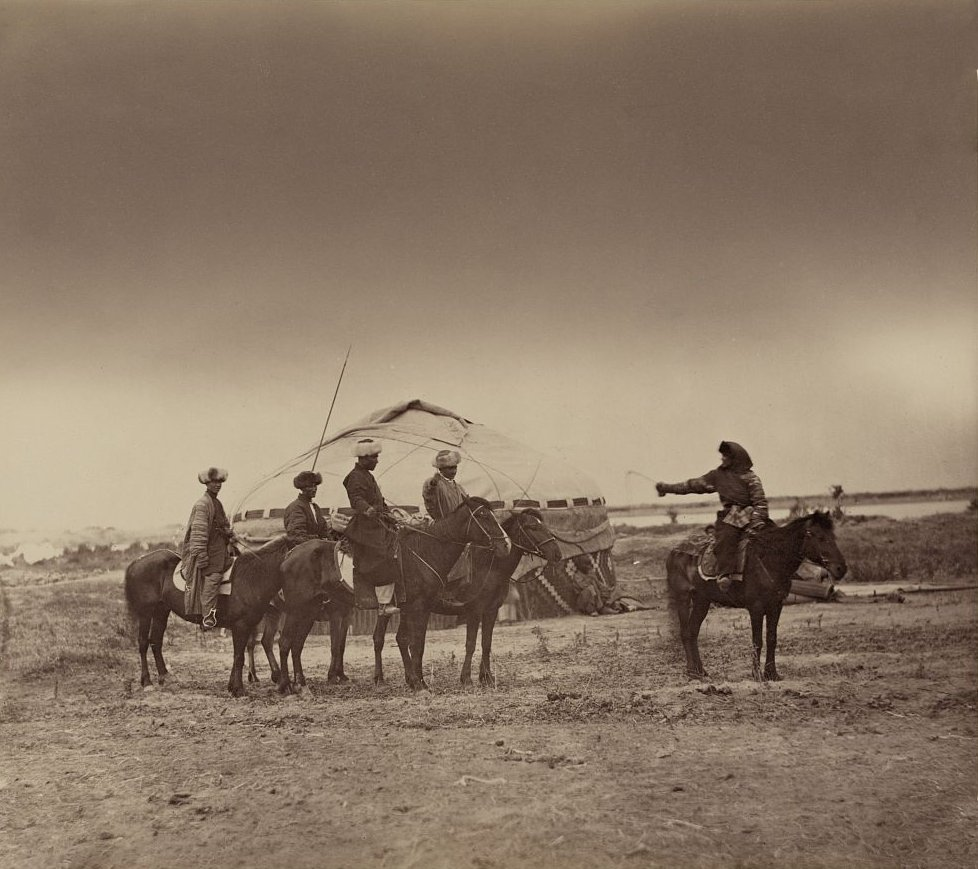 SUMMARY: Photograph shows a woman and four men on horseback in front of nomad tent. The woman is holding a whip and is looking back at the men. May be an example of the tradition of capturing or "kidnapping" a bride.